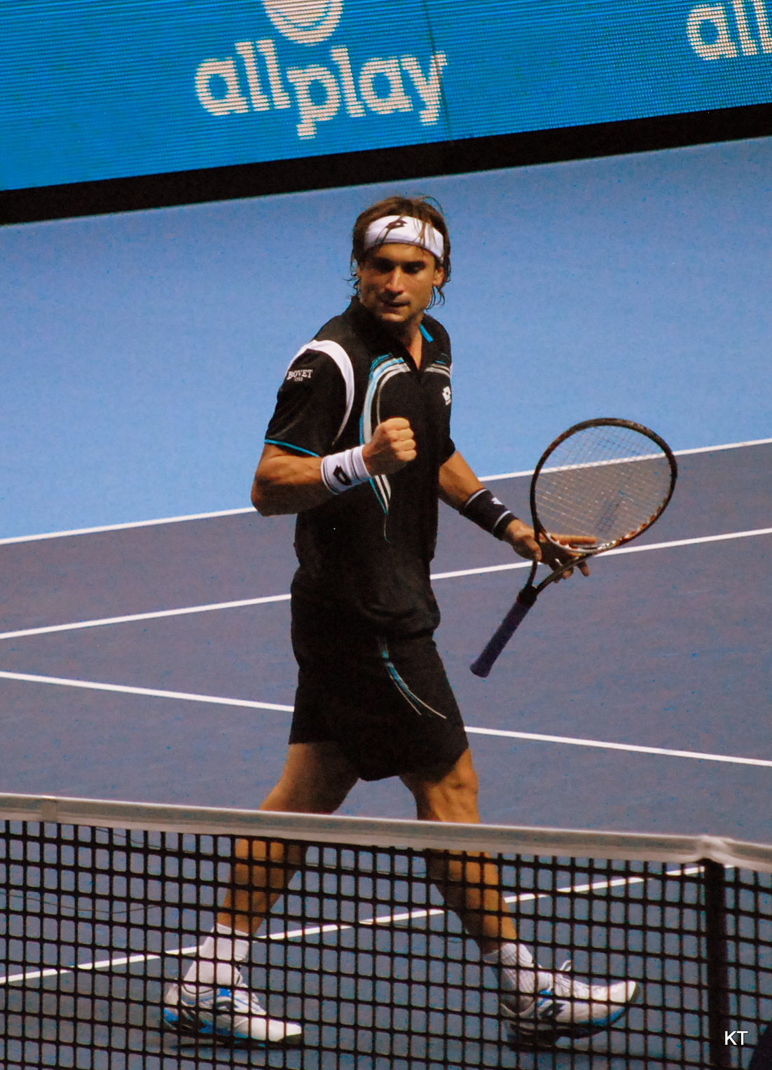 Ferrer at the World Tour Finals in London